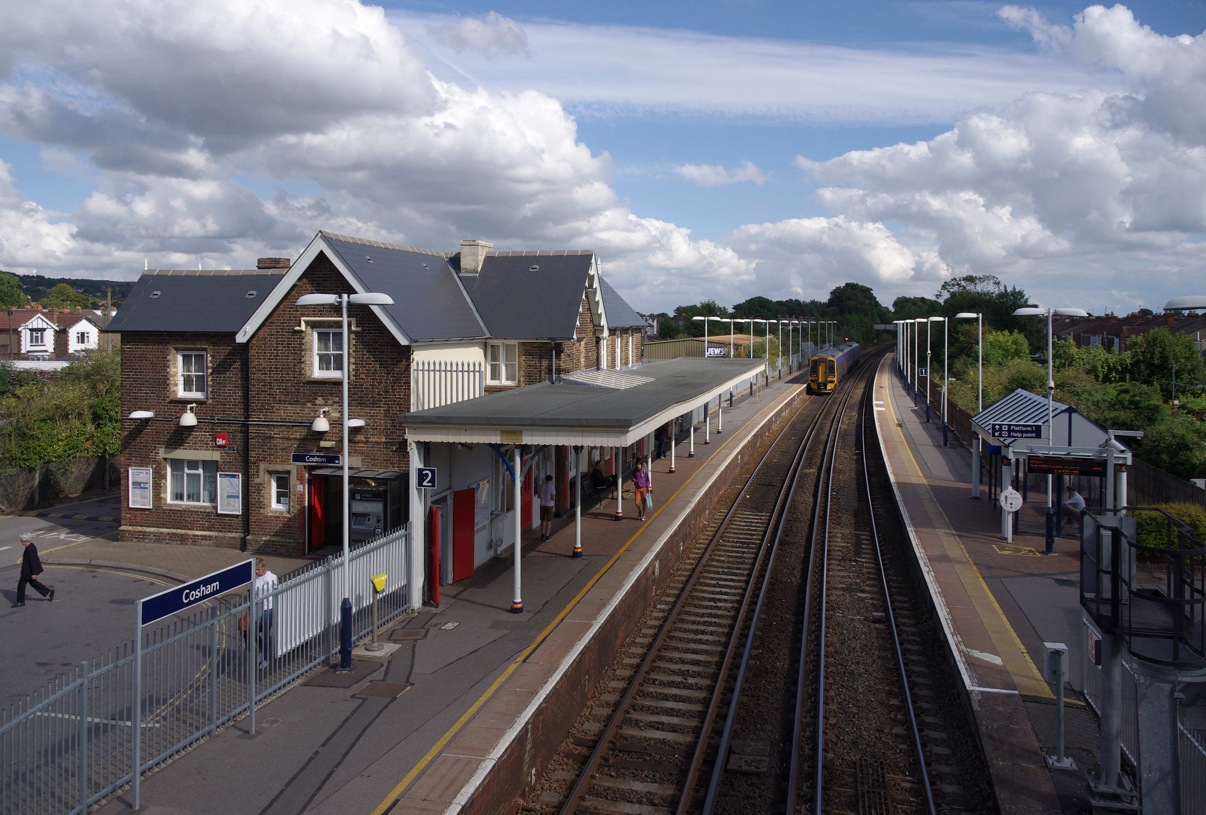 Looking over Cosham railway station from the footbridge.